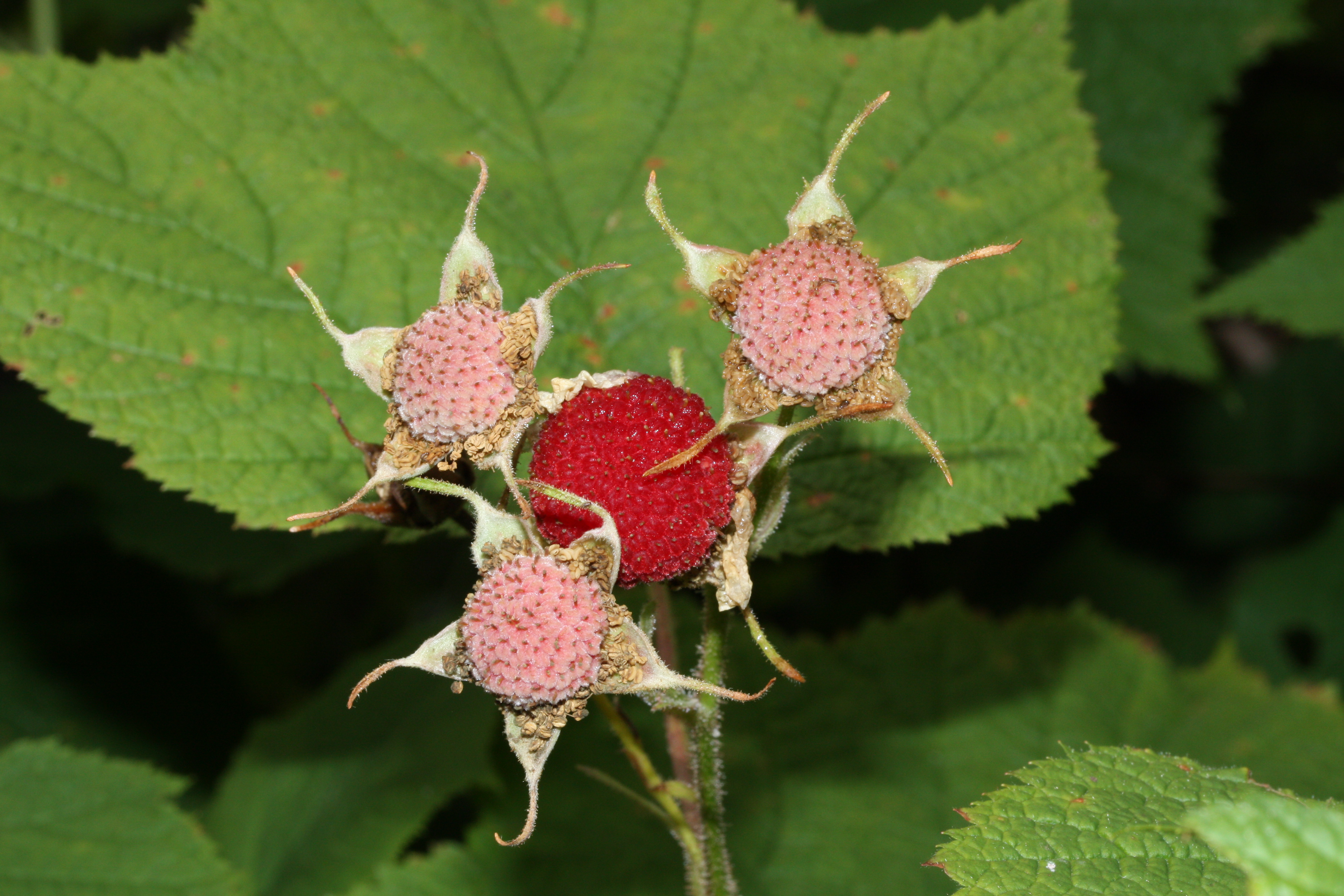 Thimbleberry, the fruit is 1-1.5 cm wide, the ripe berry at the center is surrounded by berries that are not yet ripe